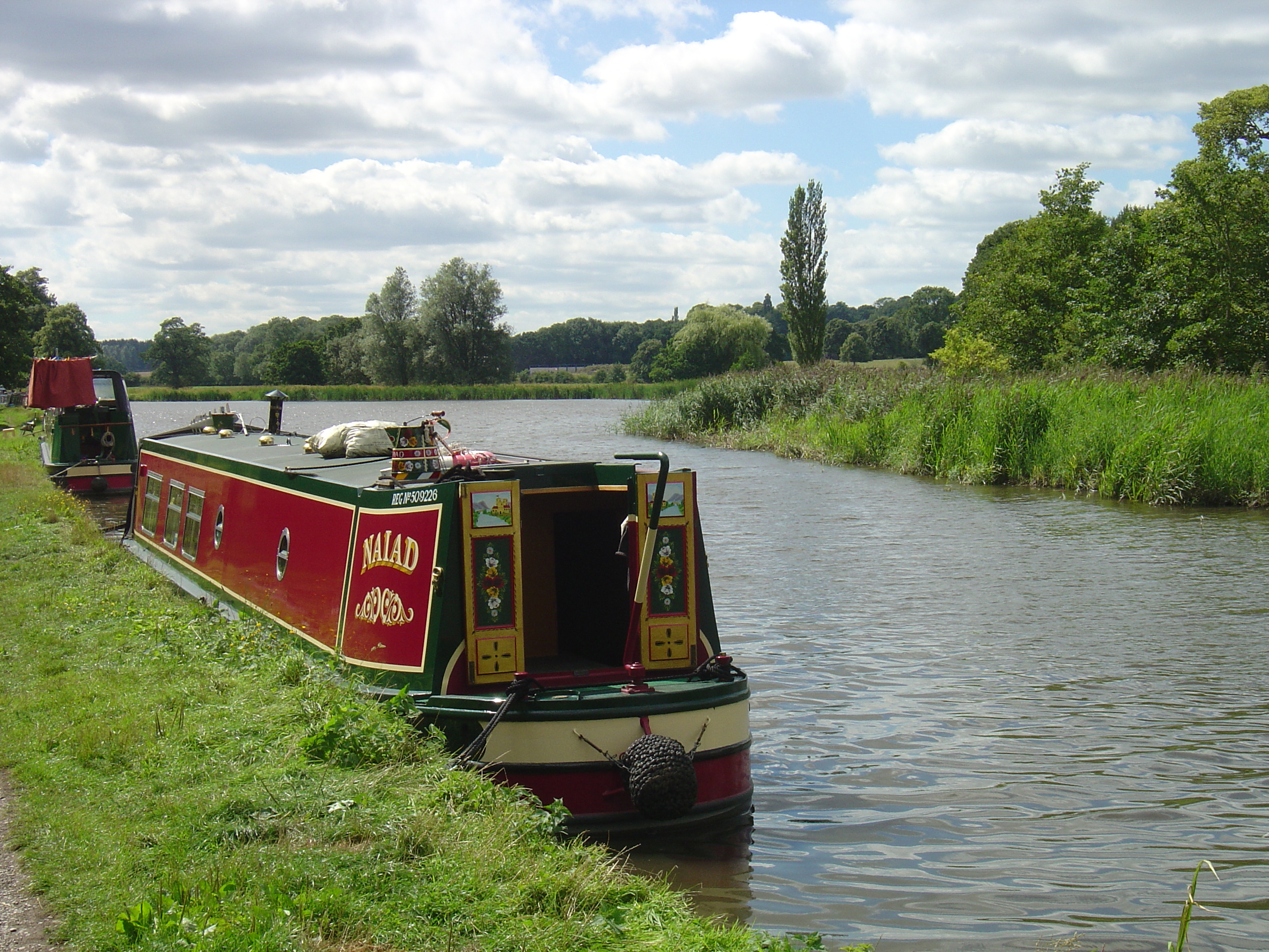 Narrowboat Naiad on Tixall Wide, on the Staffordshire and Worcestershire Canal, England.